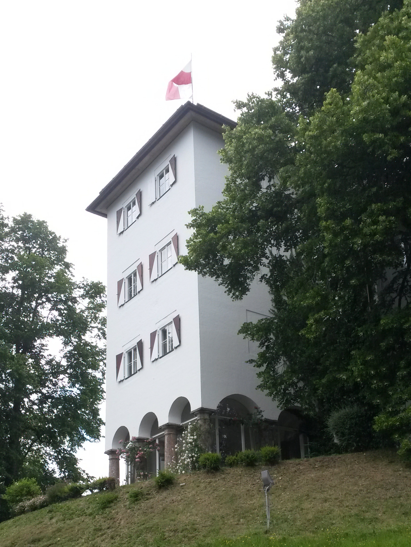 Schloss Lebenberg castle, now a hotel, located in Lebenbergstraße 17, Kitzbühel, Tyrol